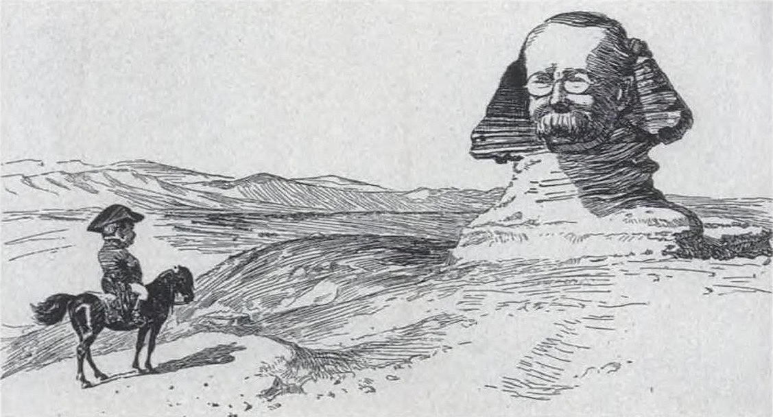 Teddy Roosevelt as the Sphinx stares down Napolean in a cartoon from Life magazine, Feb 27 1908; the image quotes the 1886 painting Bonaparte Before the Sphinx, by Jean-Léon Gérôme.